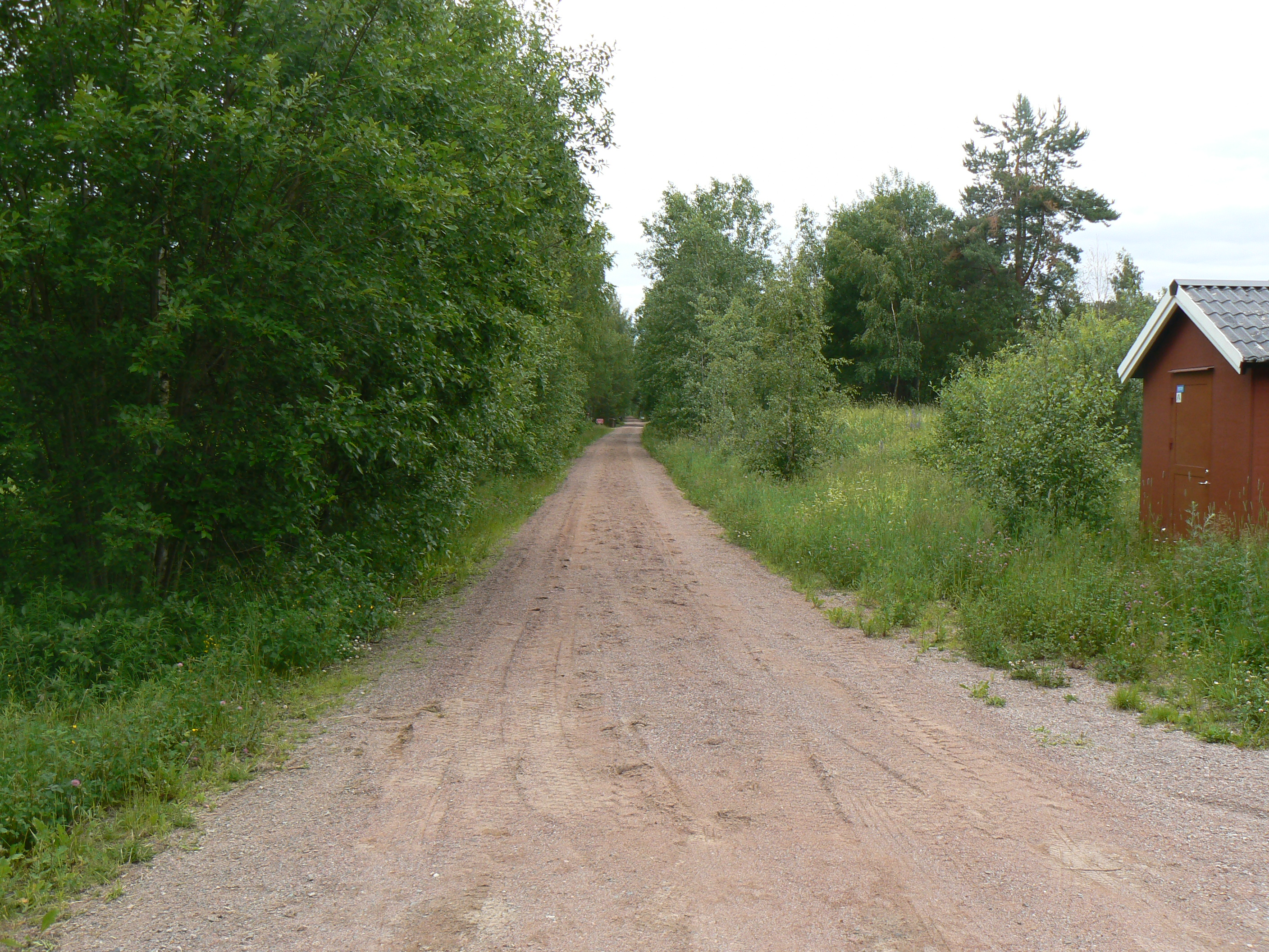 Little road on the bank upon which the former railway Falun-Repbäcken-(Björbo) used to go.